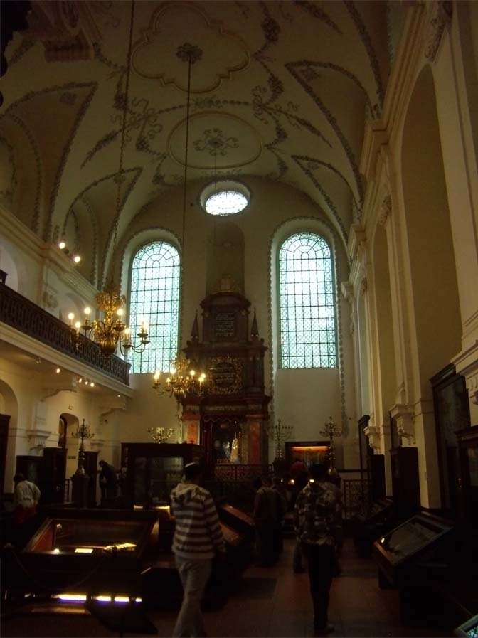 Interior of Klausen synagogue, Prague, Czech republic